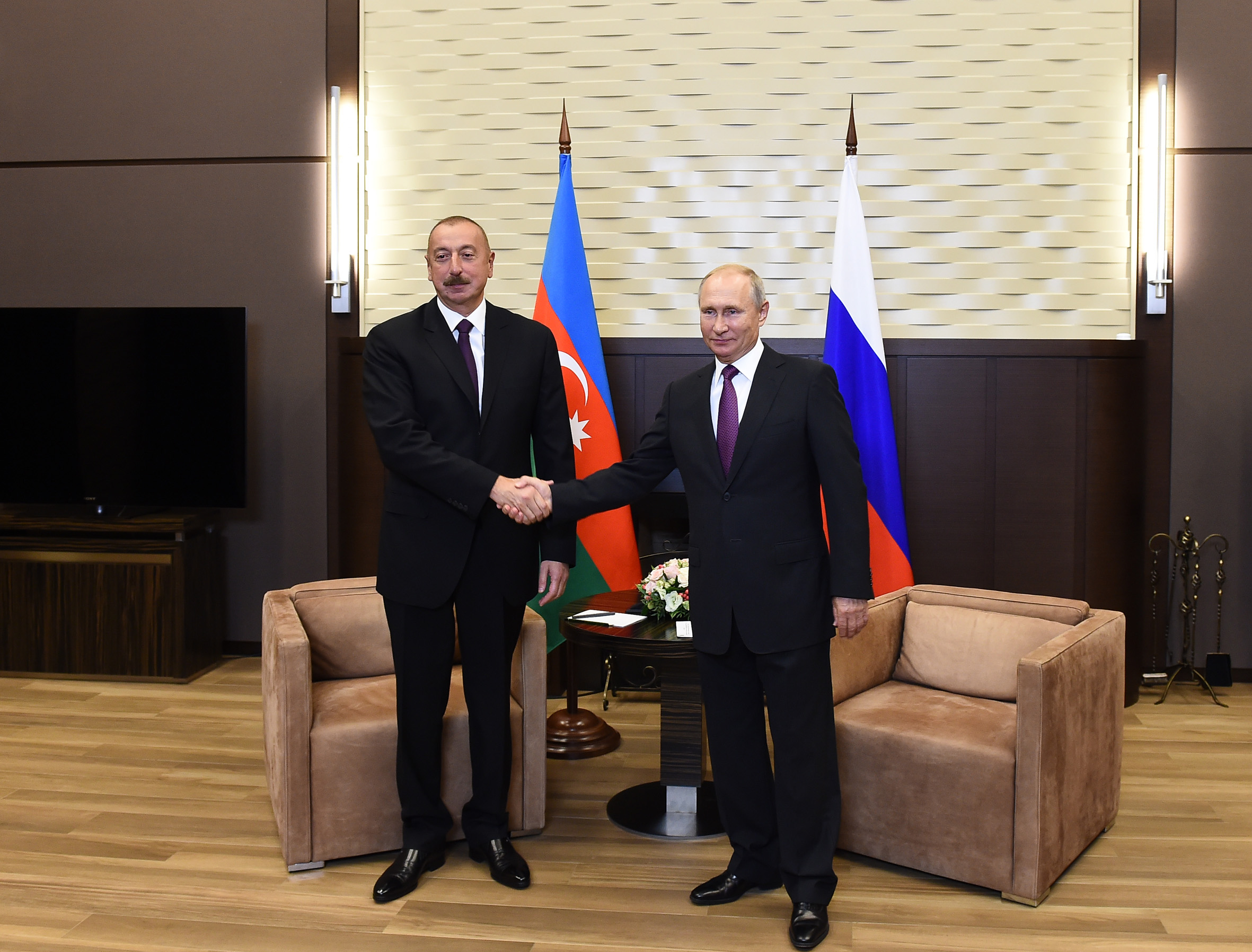 Ilham Aliyev met with Russian President Vladimir Putin